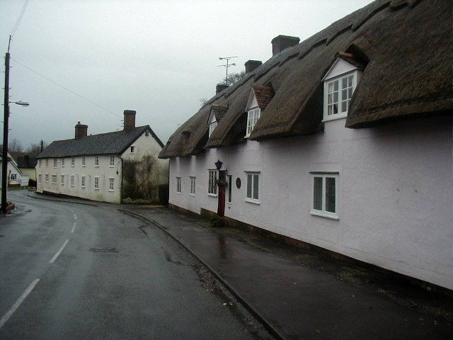 Lovely Essex. There are lovely villages in Essex, even on a wet day. This is Pleshey